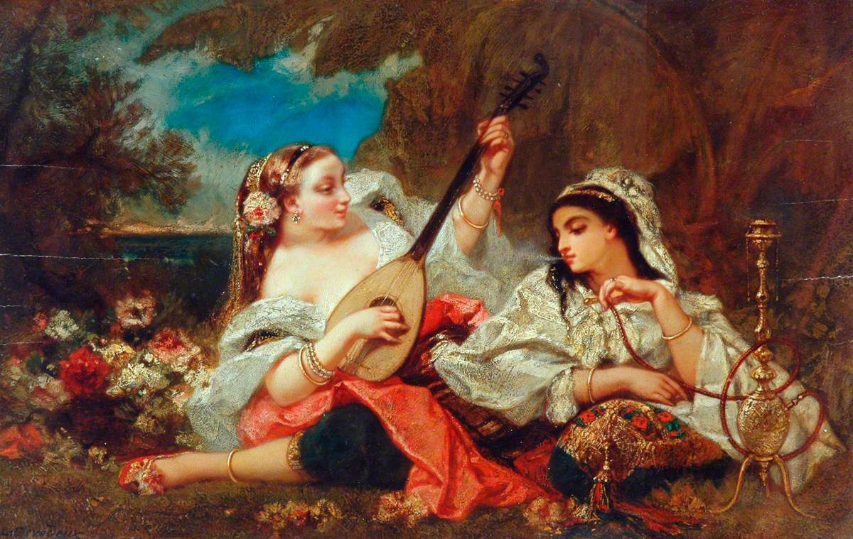 The Siesta